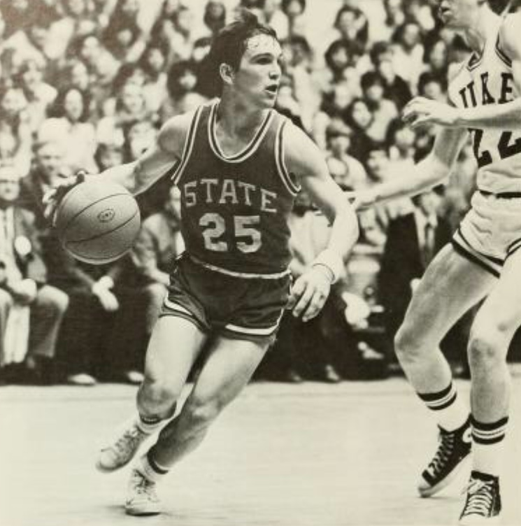 North Carolina State Wolfpack basketball guard Monte Towe from the 1974 “Agromeck” yearbook.